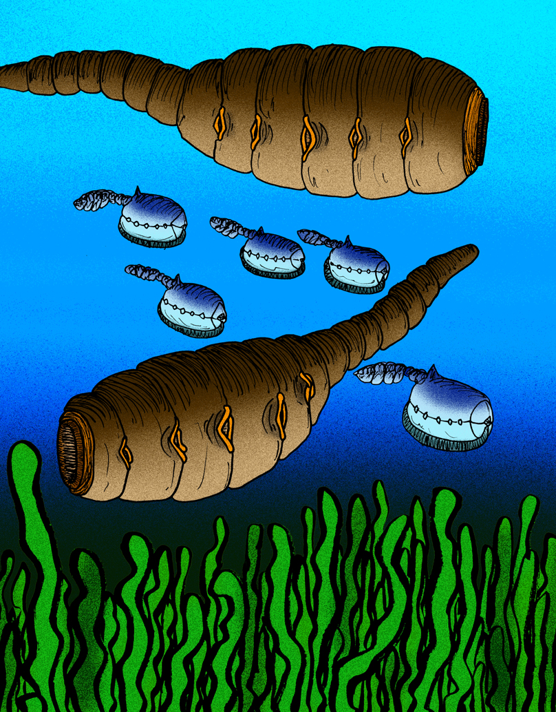 Reconstruction of the Vetulicolian Yuyuanozoon magnificissimi. From the Early Cambrian Age of China-East Asia. References Li, Yujing, et al. "The enigmatic metazoan Yuyuanozoon magnificissimi from the early Cambrian Chengjiang Biota, Yunnan Province, South China." Journal of Paleontology 92.6 (2018): 1081-1091.